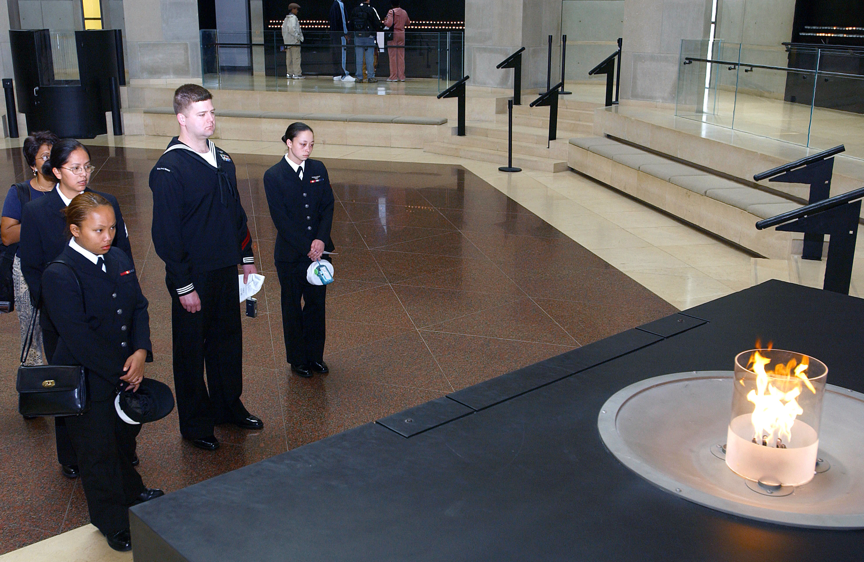 United States Holocaust Memorial Museum, Washington, D.C. (Apr. 7, 2004) - After a self-guided tour of the museum's exhibits, left to right, Personnelman 3rd Class Christina De la Cruz, Cryptologic Technician Technical Seaman Stacey Martin, Aviation Electronics Technician 1st Class David Baird, and Aviation Electronics Technician 3rd Class Angela Fitchard, take a moment to reflect at the eternal flame in the Hall of Remembrance. All the sailors are assigned to the nuclear powered aircraft carrier USS Ronald Reagan (CVN 76) and were invited to the museum by patron Mark Talismon. U.S. Navy photo by Photographer's Mate Airman Dominique M. Lasco. (RELEASED)